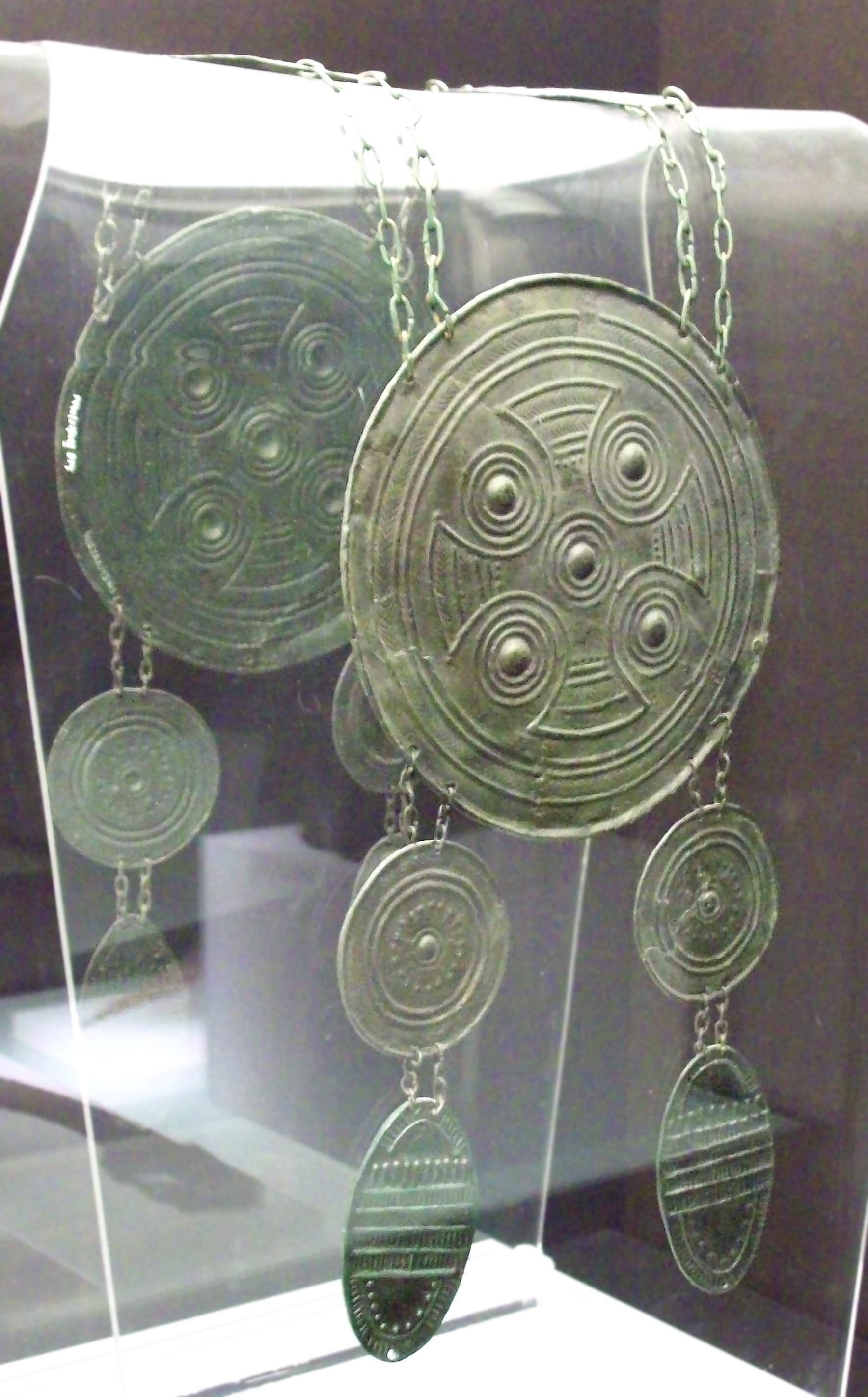 A Celtiberian breastplate from Iron Age II.